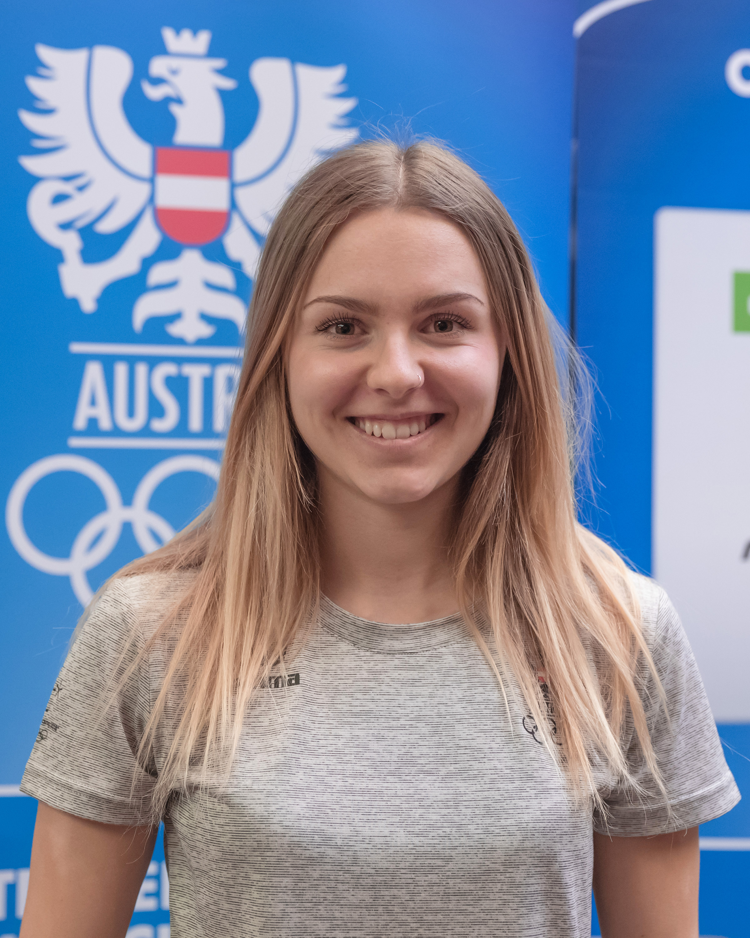 Chiara Hölzl at the outfitting of the Austrian team for the 2018 Winter Olympics (Hotel Marriott in Vienna, Austria.